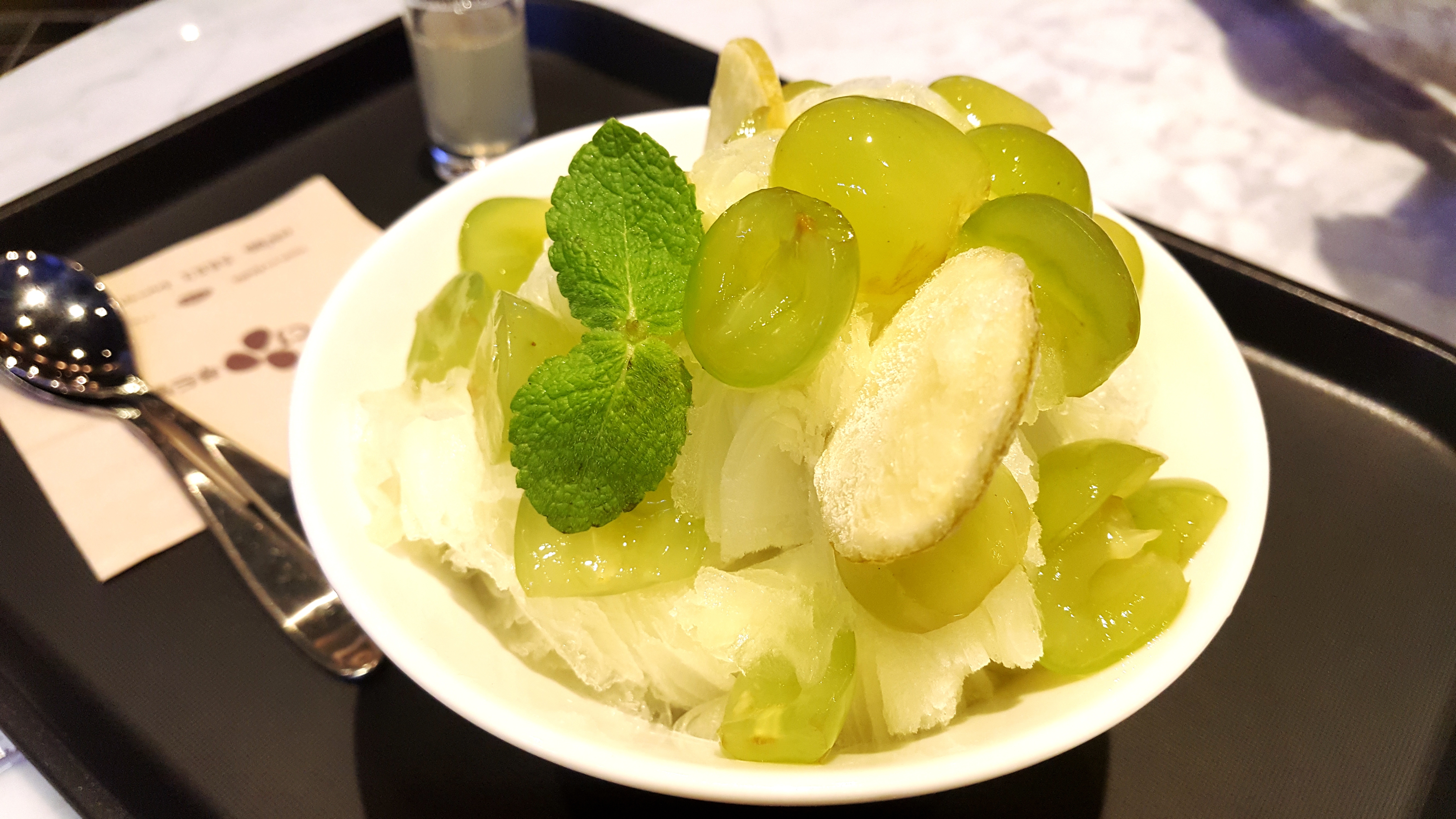 White grape bingsu with slices of lime